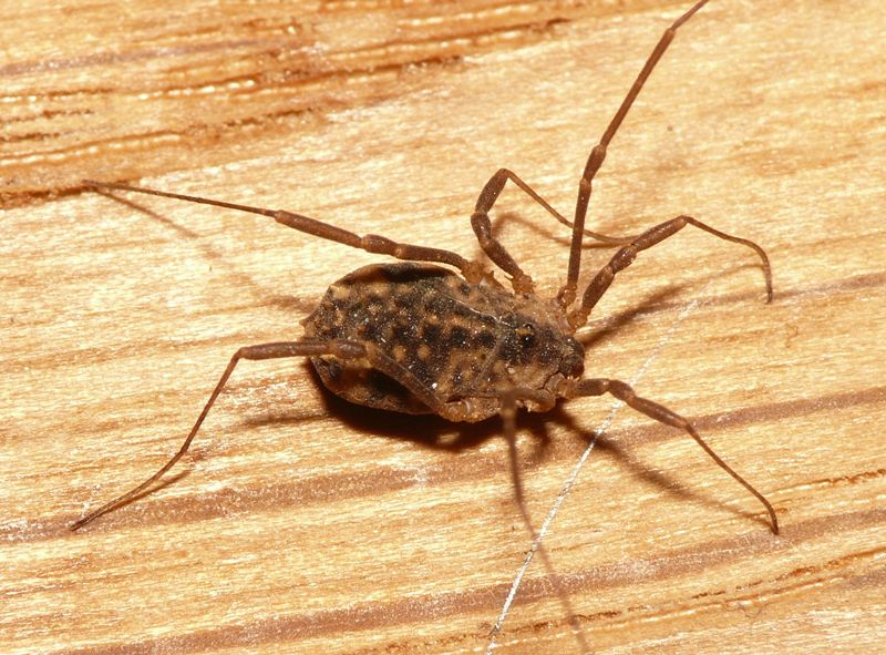 Astrobunus laevipes. Location: Rhenen - Blauwe Kamer - Gelderland (The Netherlands)